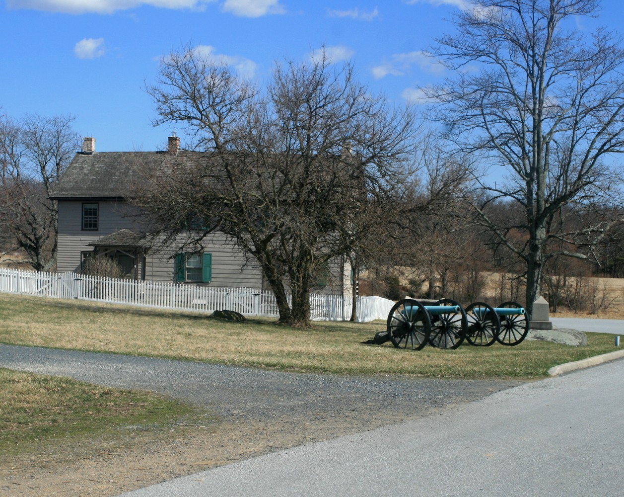 Gettysburg battlefield, Trostle farm and Bigelow's guns